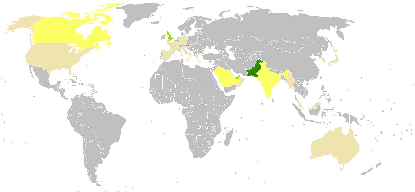 Punjabi Language in the world Dark Green: Mother tongue of majority of the population Lime Green: Less than 5% Light Yellow: About 2% Yellowish Brown: Less than 1%